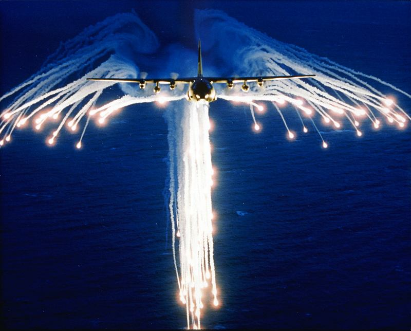 C-130 Angel Flares, this came from my father it's one of his pictures. A USAF Captain who flew C-130s.